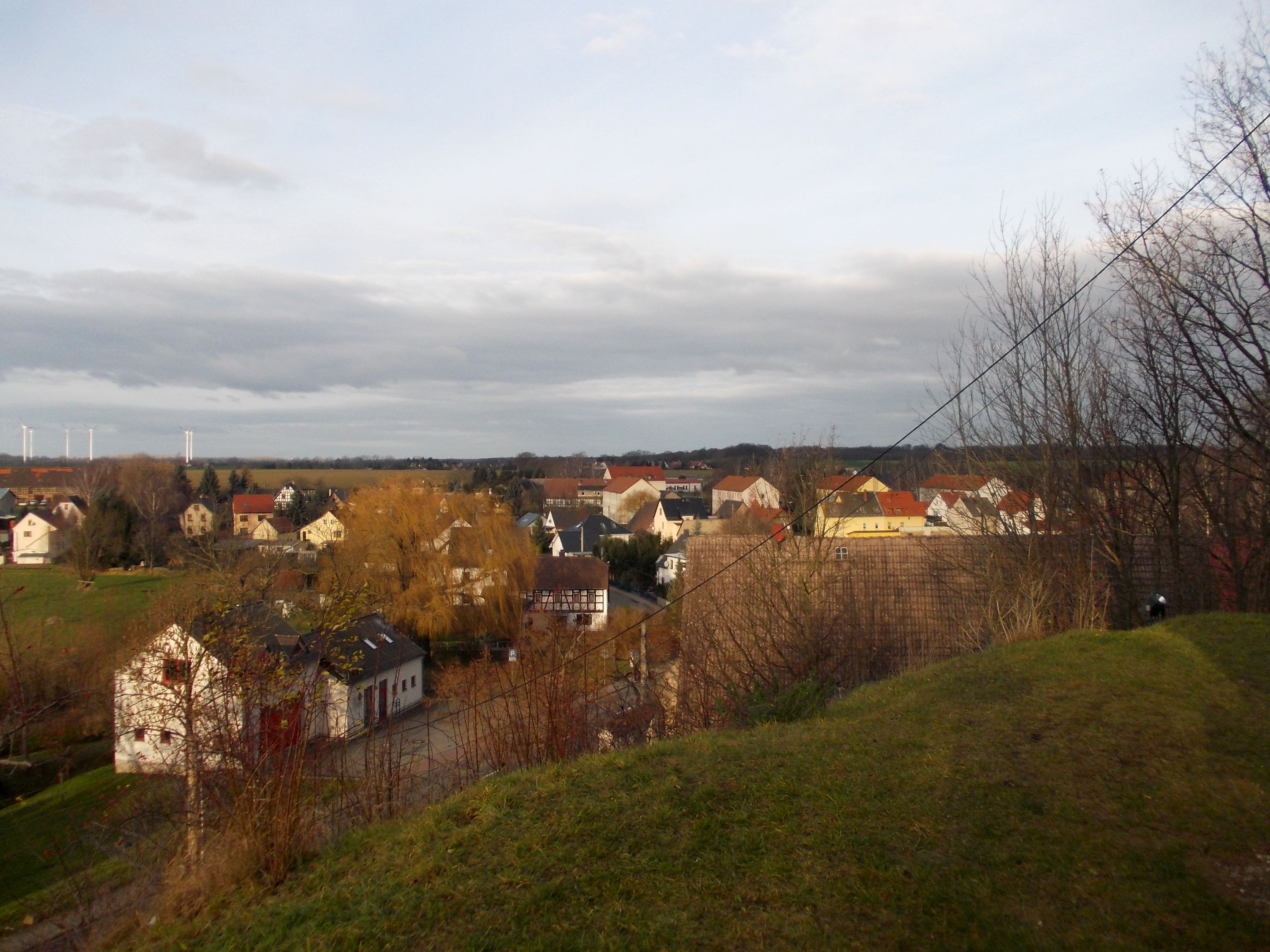 View of the village of Gerstenberg from church hill (Altenburger Land district, Thuringia)